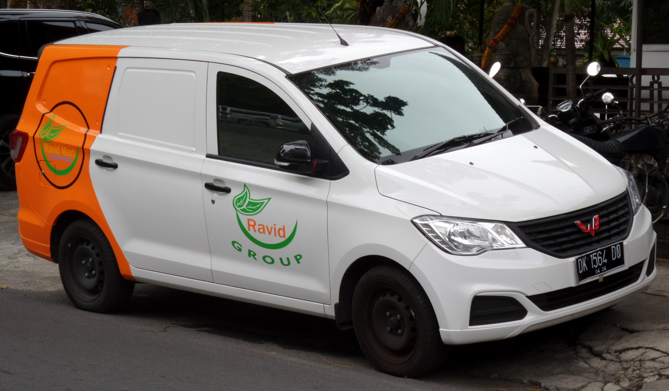 A panel van version based from Wuling Confero aka Wuling Hongguang S1.